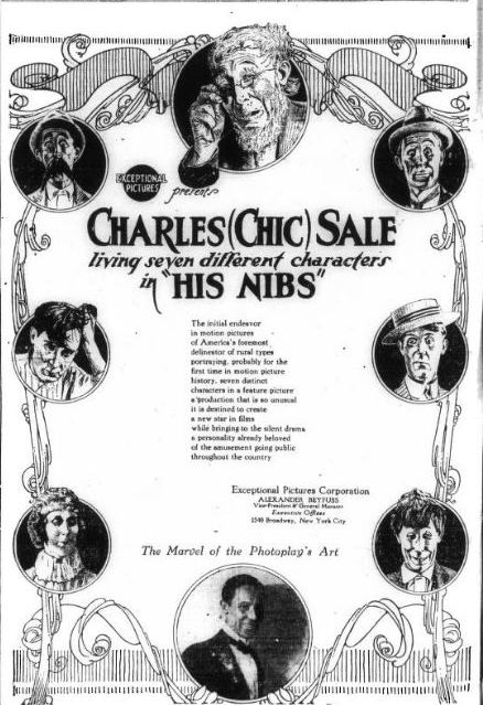 Advertisement for the American comedy film His Nibs (1921) with Charles "Chic" Sale, on page 42 of the October 7, 1921 Variety.